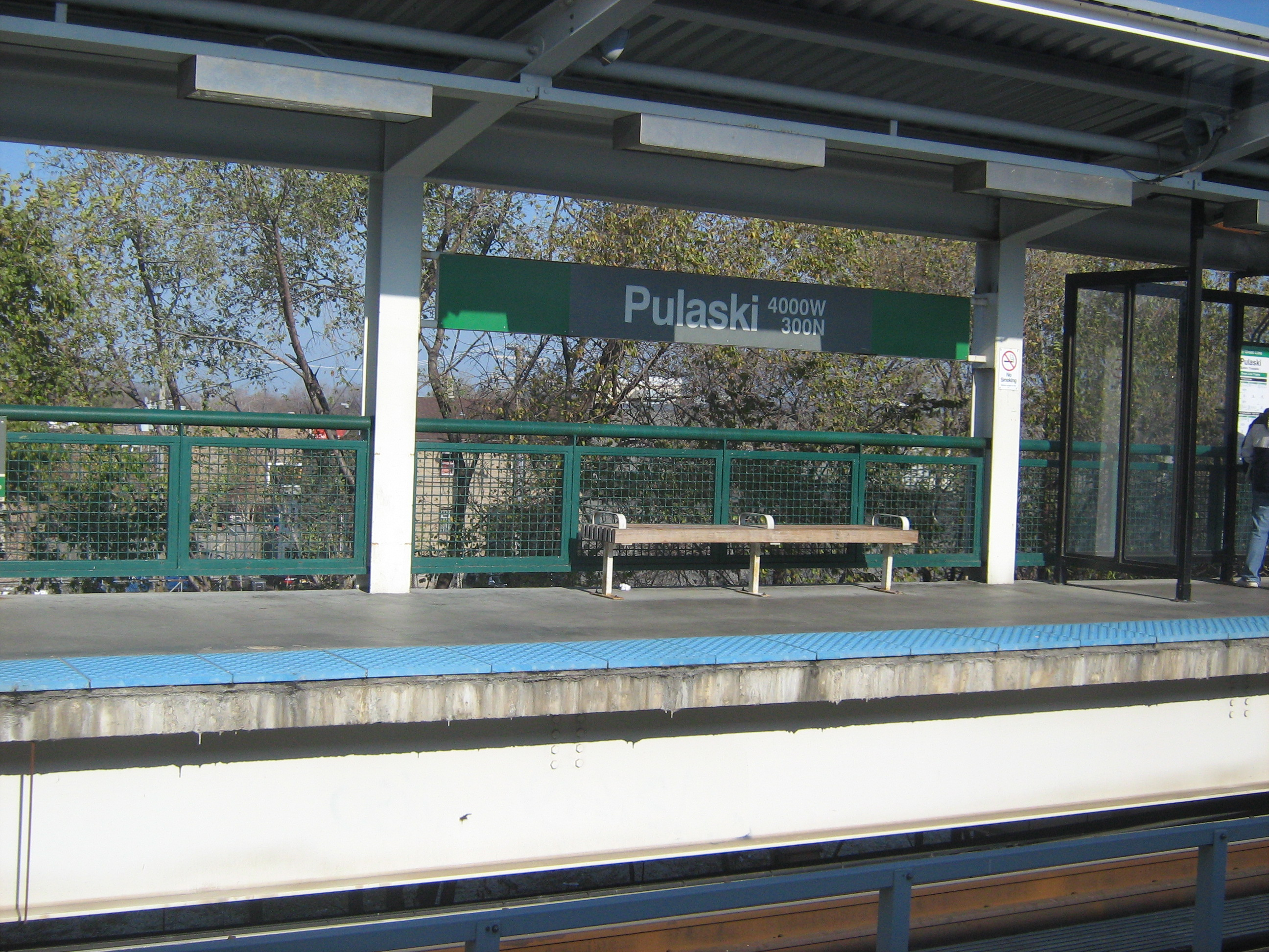 Pulaski CTA Green line Station